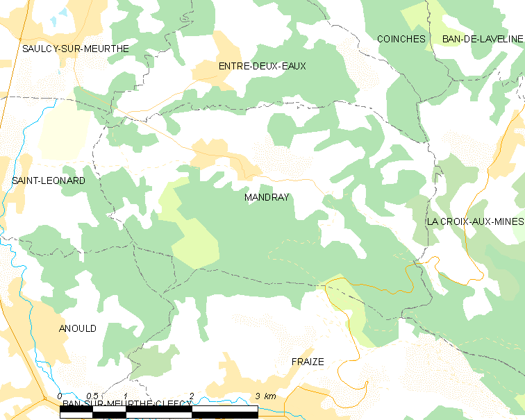 Map of French municipality Mandray